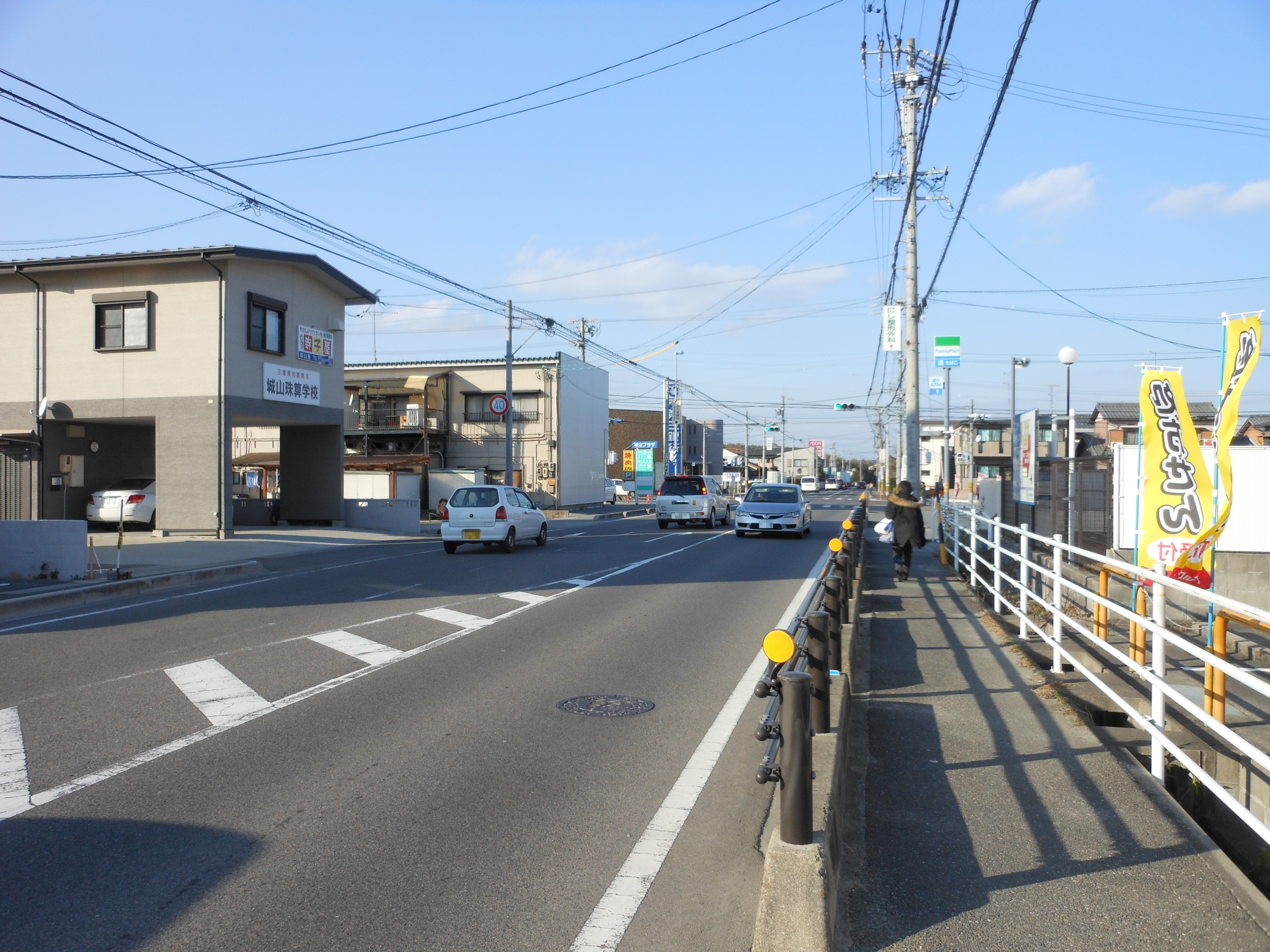 This is a landscape of Shiroyama 1 and 3 chome, Tsu city, Mie prefecture, Japan.